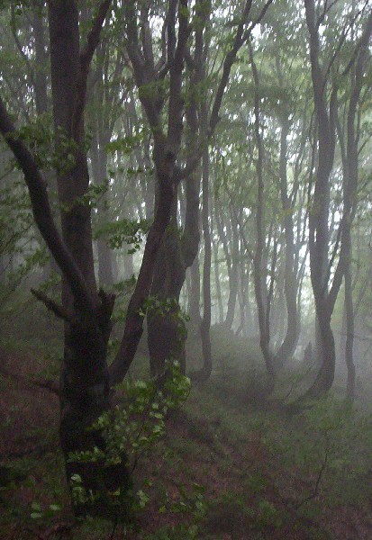 Beech forest in Bieszczady Mountains (near Durna Mountain). The shape of trees (near ground) is caused by downhill creep